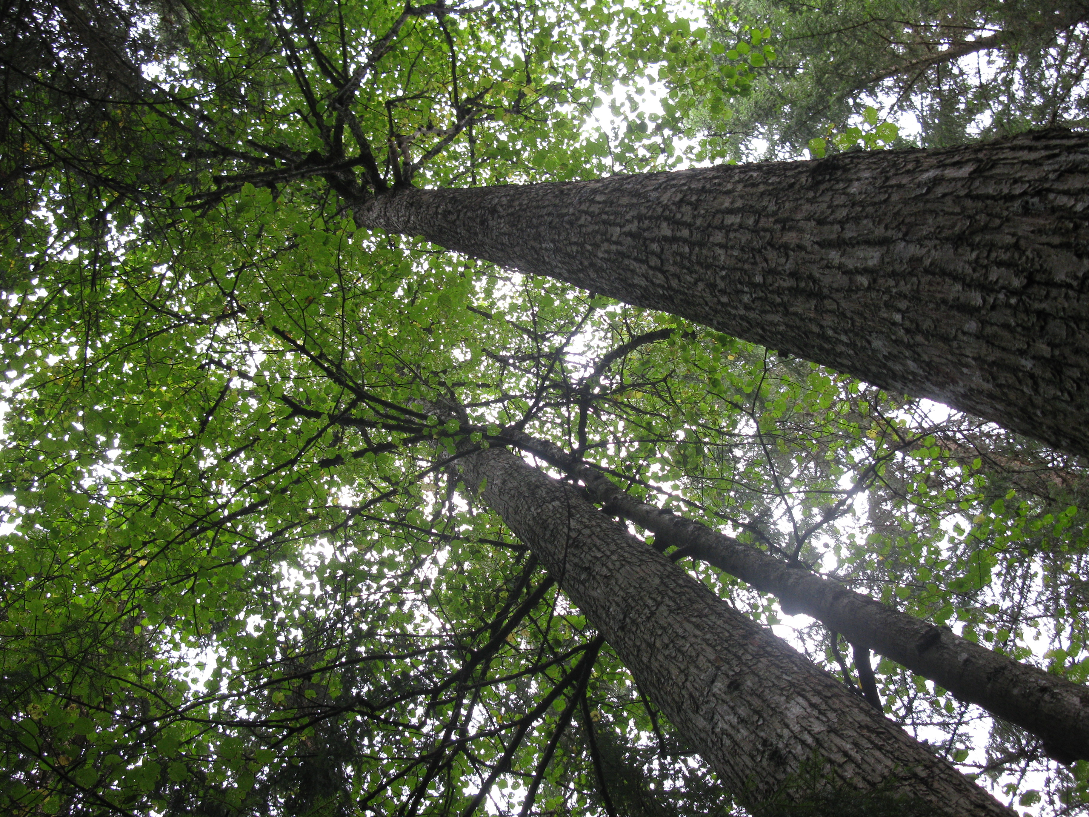 Tilia cordata in Somerniemi, Somero, Finland